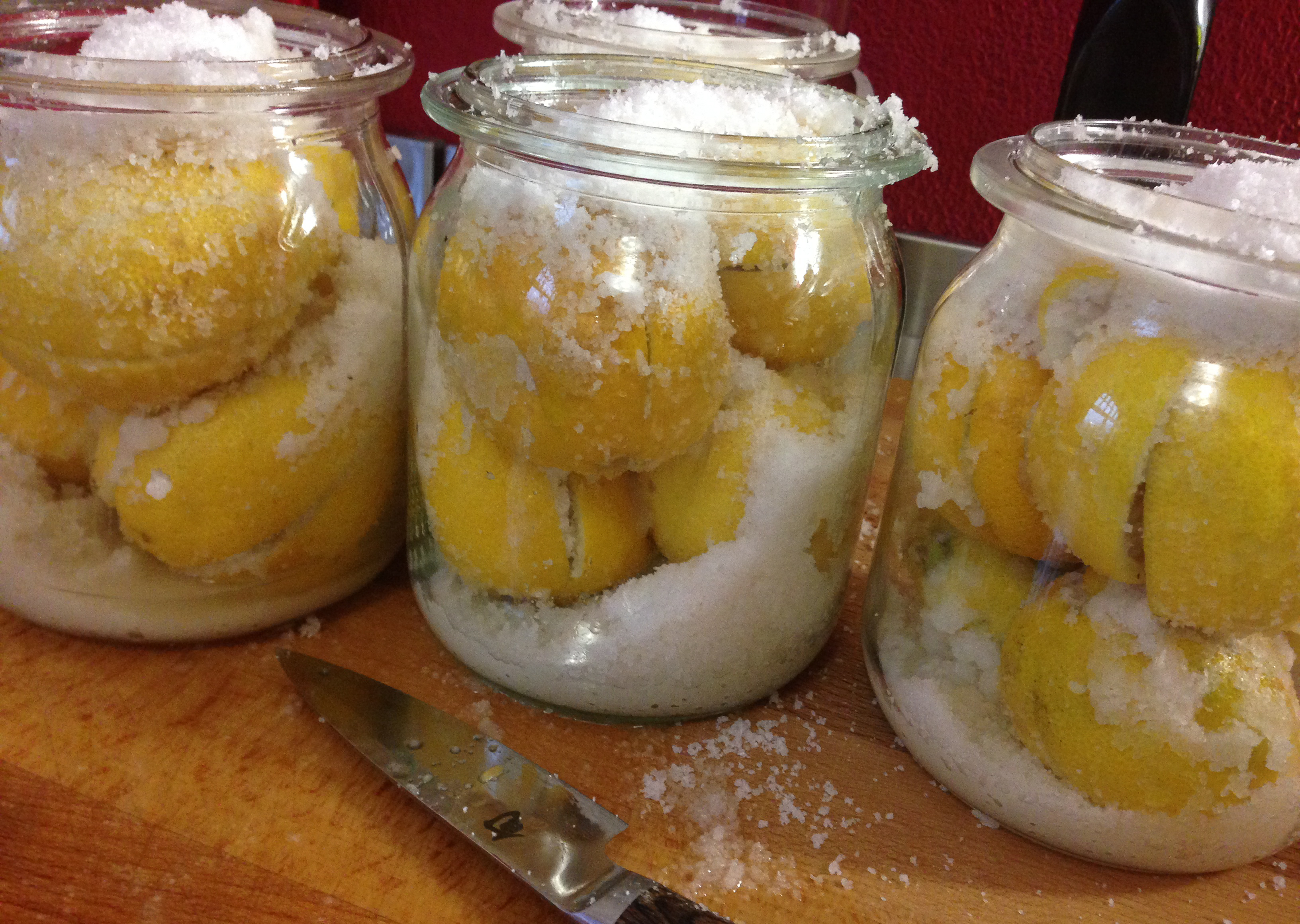 salted lemons, moroccan cooking